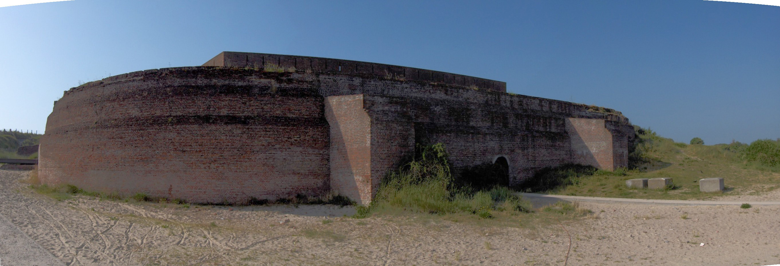 Fort Napoleon - last remaining fort built in Napoleonic times (1811-1815) - Ostend, Belgium